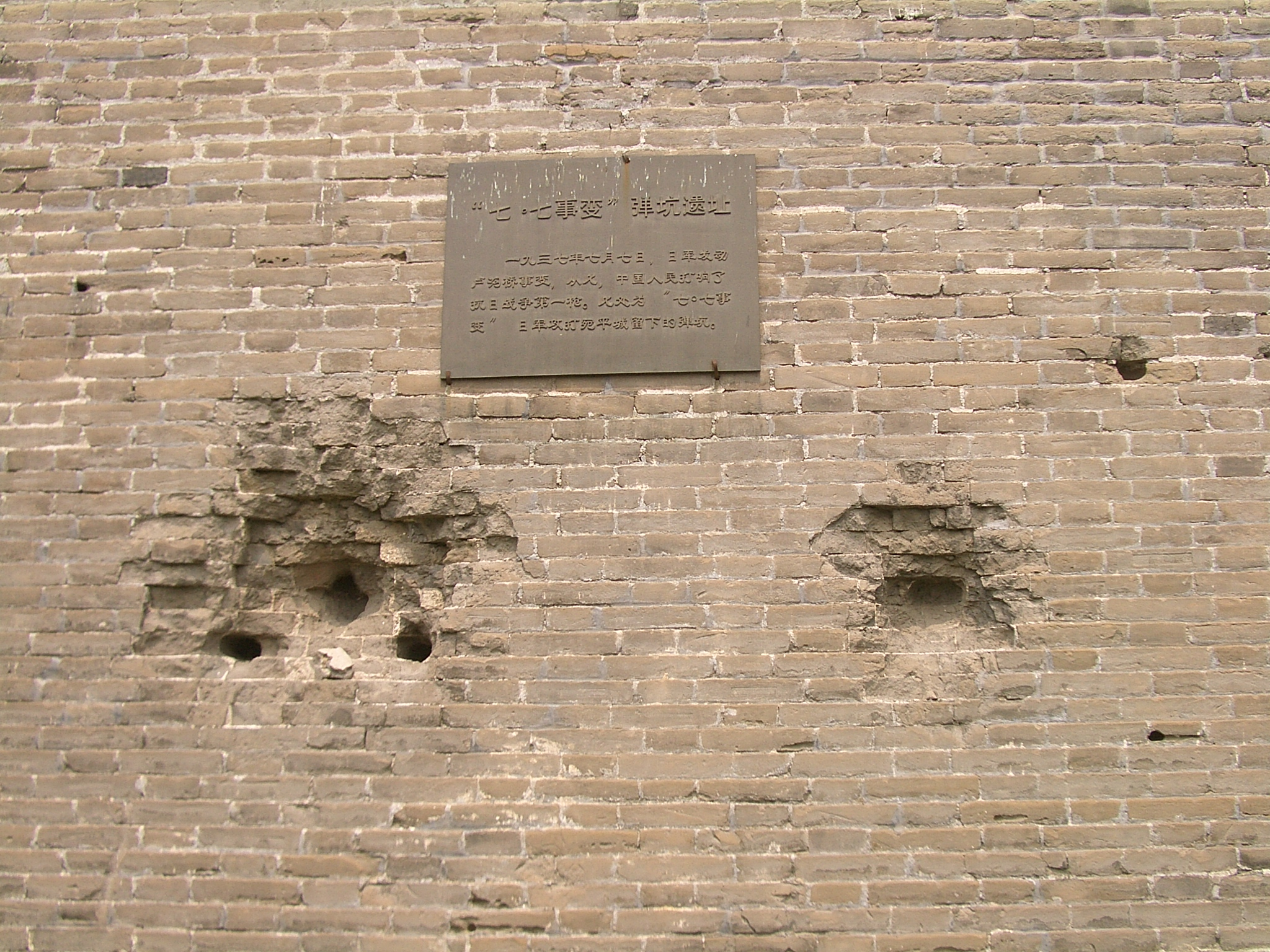 At the south wall of the Wanping Castle in Beijing. The spot damaged by the Japanese shelling during the Marko Polo Bridge (Lugouqiao) Incident in 1937 are marked with a memorial plaque. The text on the row of black stone drums along the walls tells the story of the War againt Japan that followed the incident.